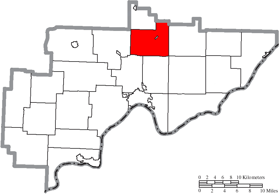 Map of the municipal and township boundaries of Washington County, Ohio, United States, as of the 2000 census, with the location of Salem Township highlighted. Township borders are shown only in unincorporated areas in order to differentiate incorporated and unincorporated areas more clearly.